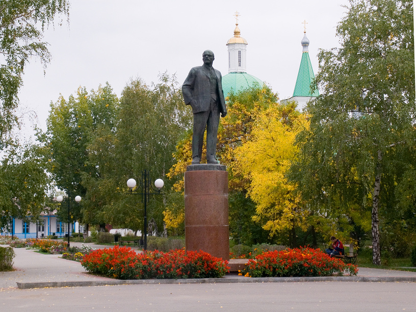 Monument to Lenin in stanitsa Vyoshenskaya the Rostov region